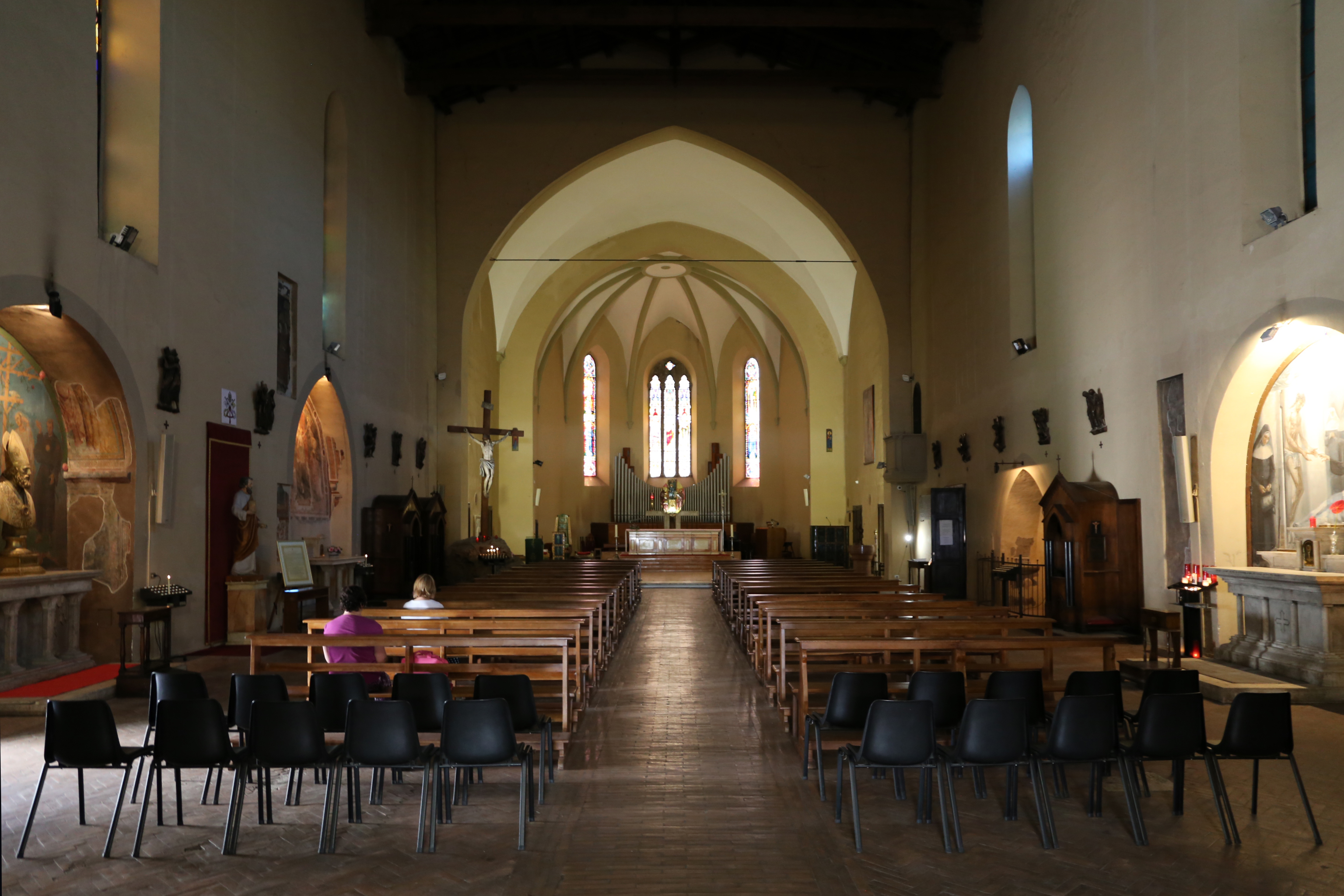 San Pietro (Terni)